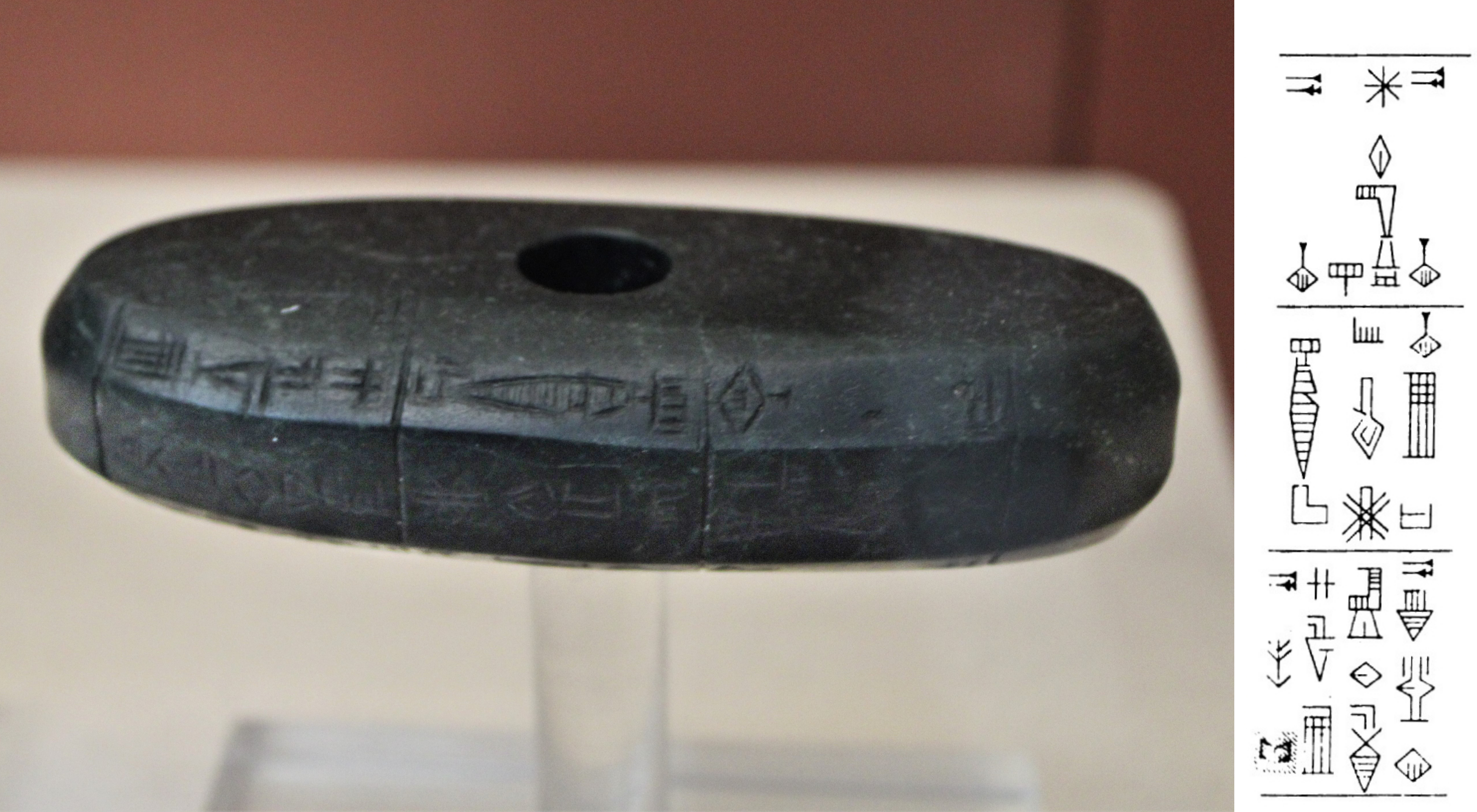 Votive hammer of Shu-turul Room 56 Display case 11 British Museum (with reconstruction of the inscription)